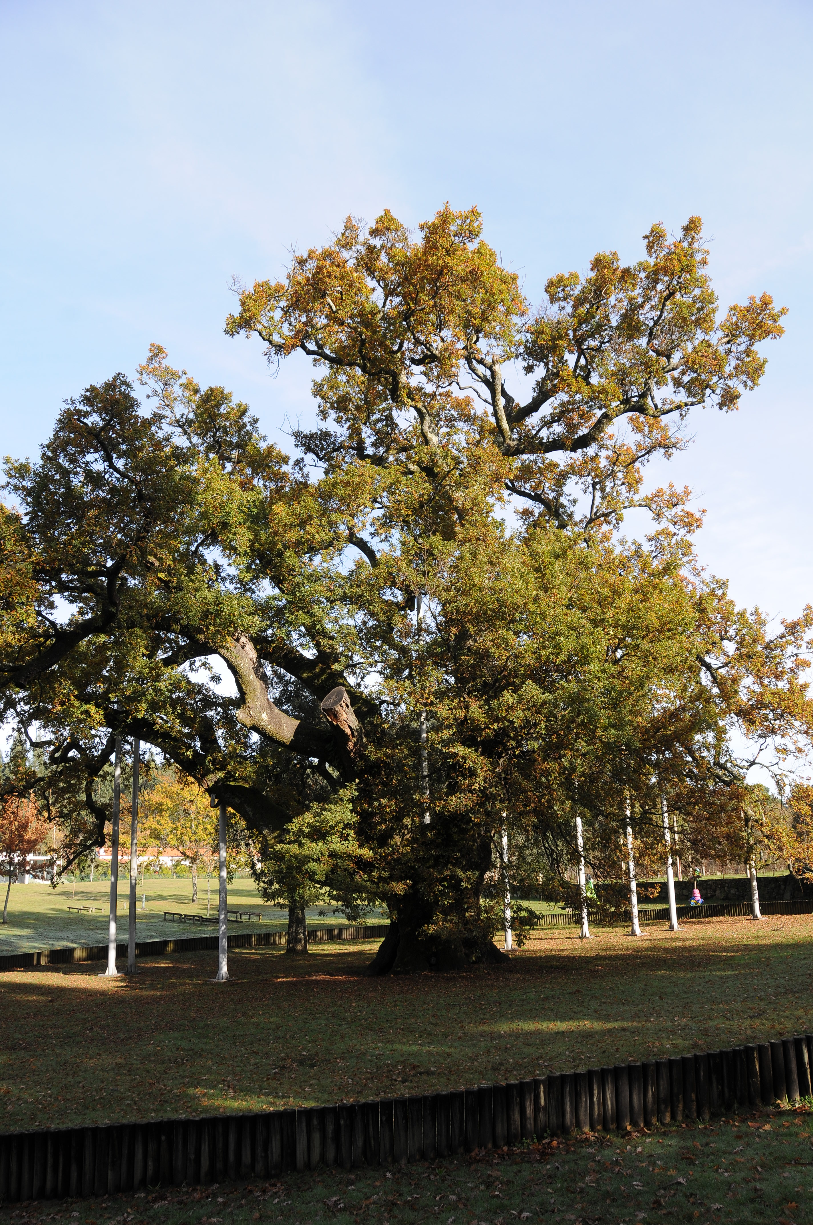 Quercus robur in Calvos, Povoa e Lanhoso, Portugal.